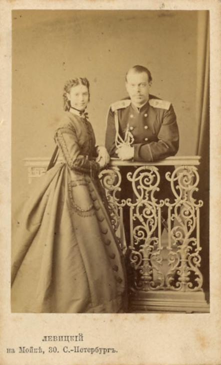 Russian Imperial Family Photo